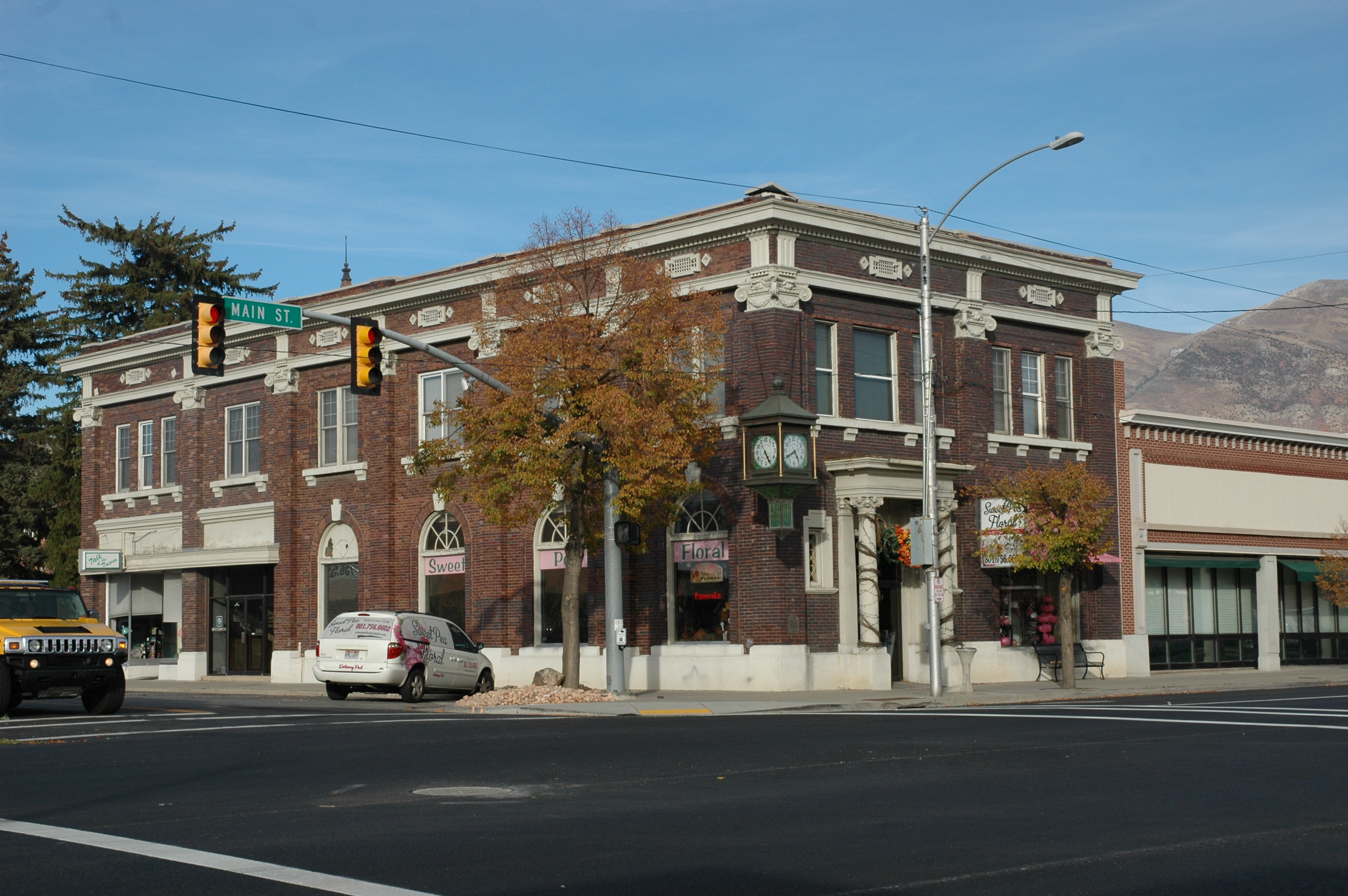 The former Bank of American Fork building, a historic building in American Fork, Utah, United States.